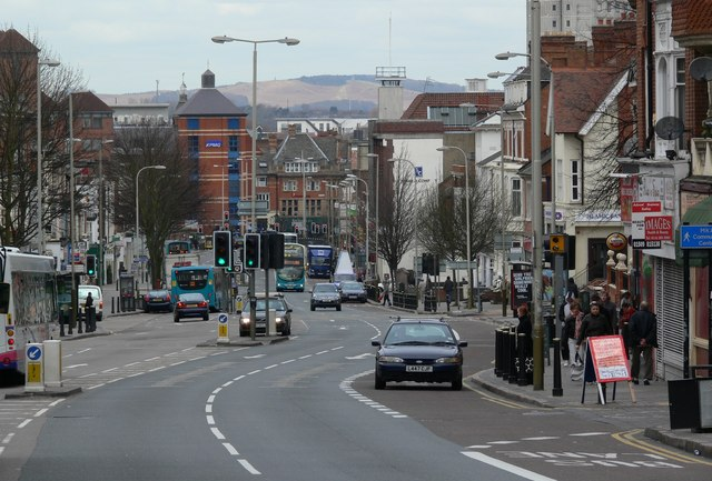 London Road in Leicester The high ground in the distance is Bradgate Park, about six miles as the crow flies.